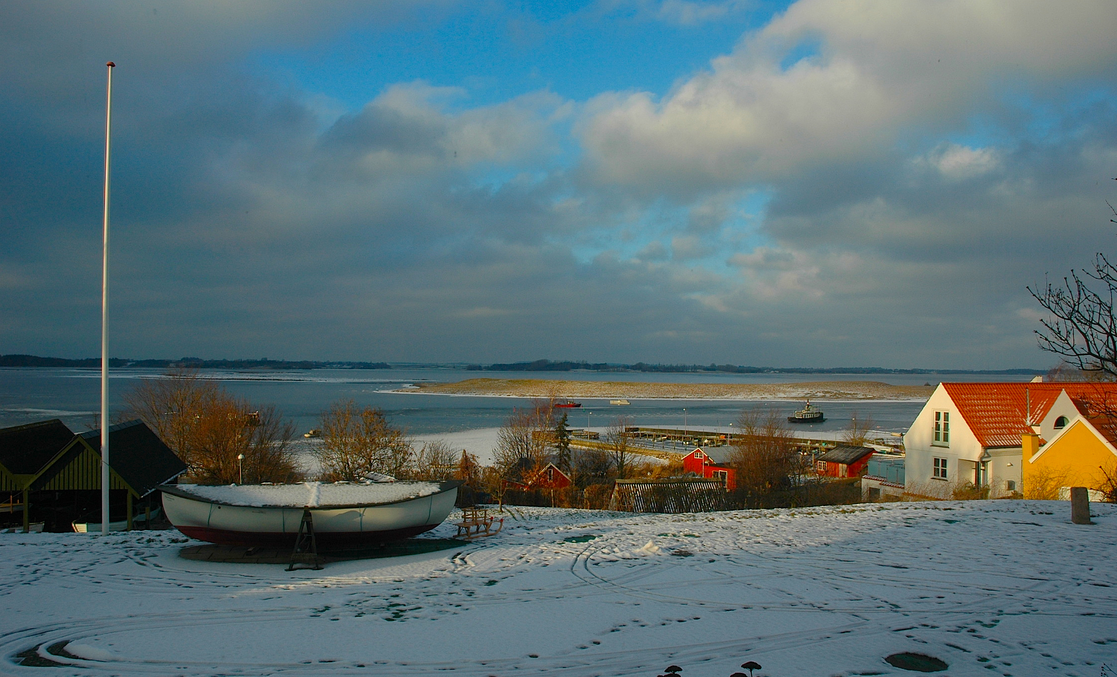 Jyllinge, Denmark, A general view of the Roskilde Fjord